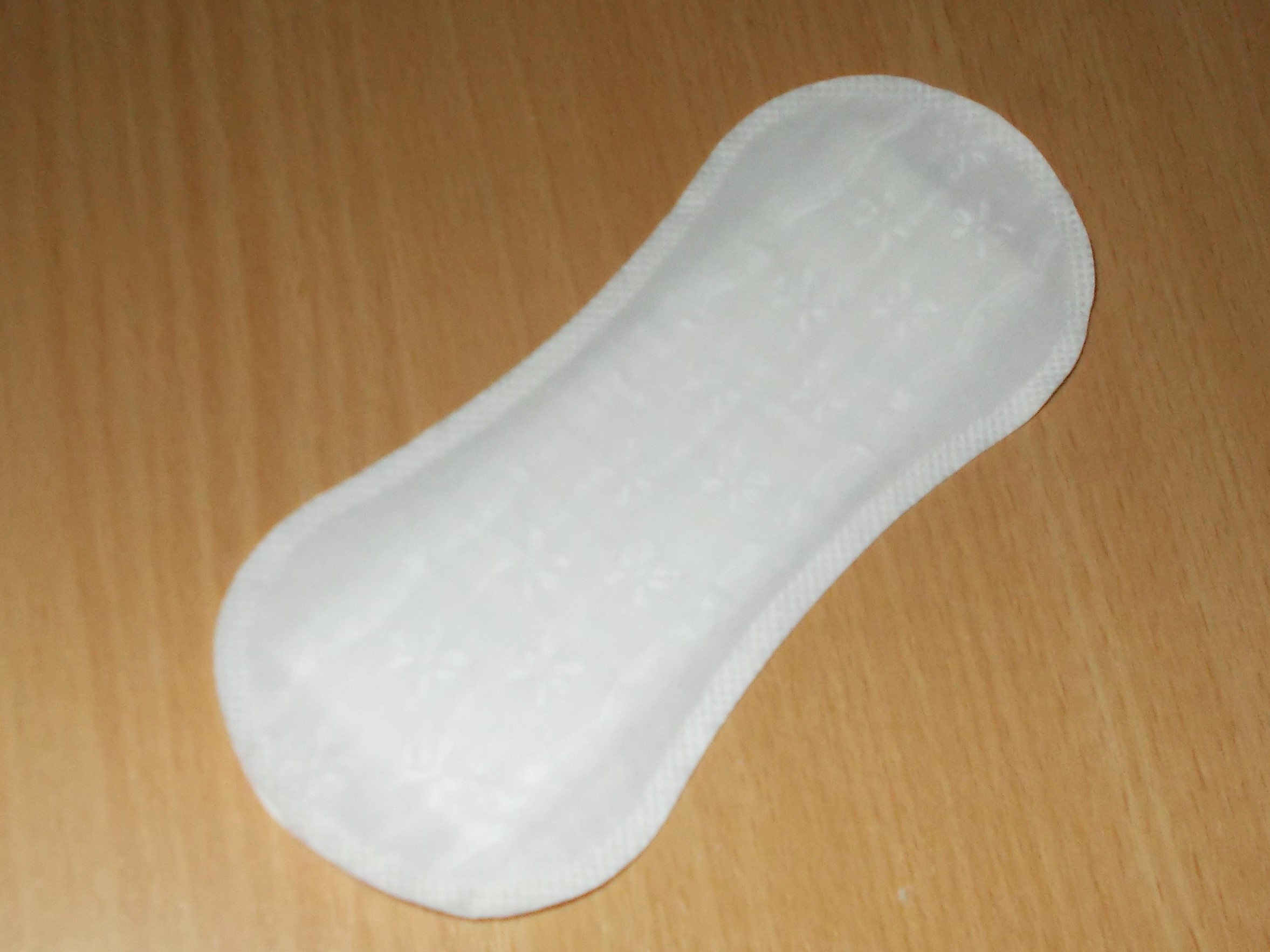 Carefree cotton